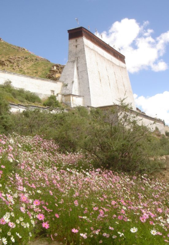 Thanka wall at Tashilhunpo monastery, Shigatse, Tibet autonomous region, China. Giant thangkhas are displayed on this wall during the Buddha Unfolding Festival, from the 14th to the 16th day of 5th month of the Tibetan calendar.